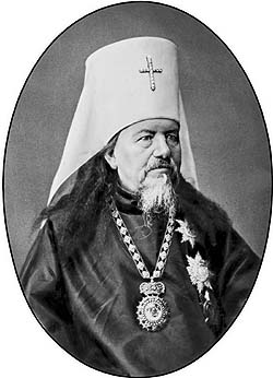 Metropolitan Isidor (1799—1892)